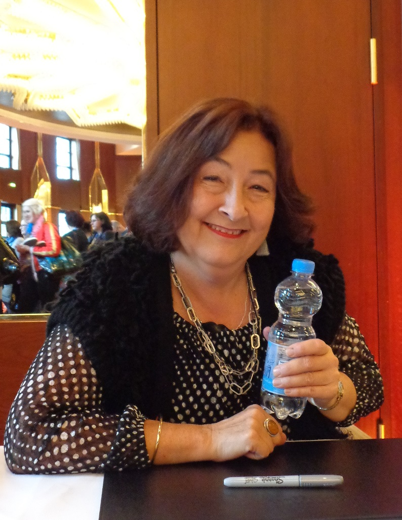 New Zealand actress Lori Dungey